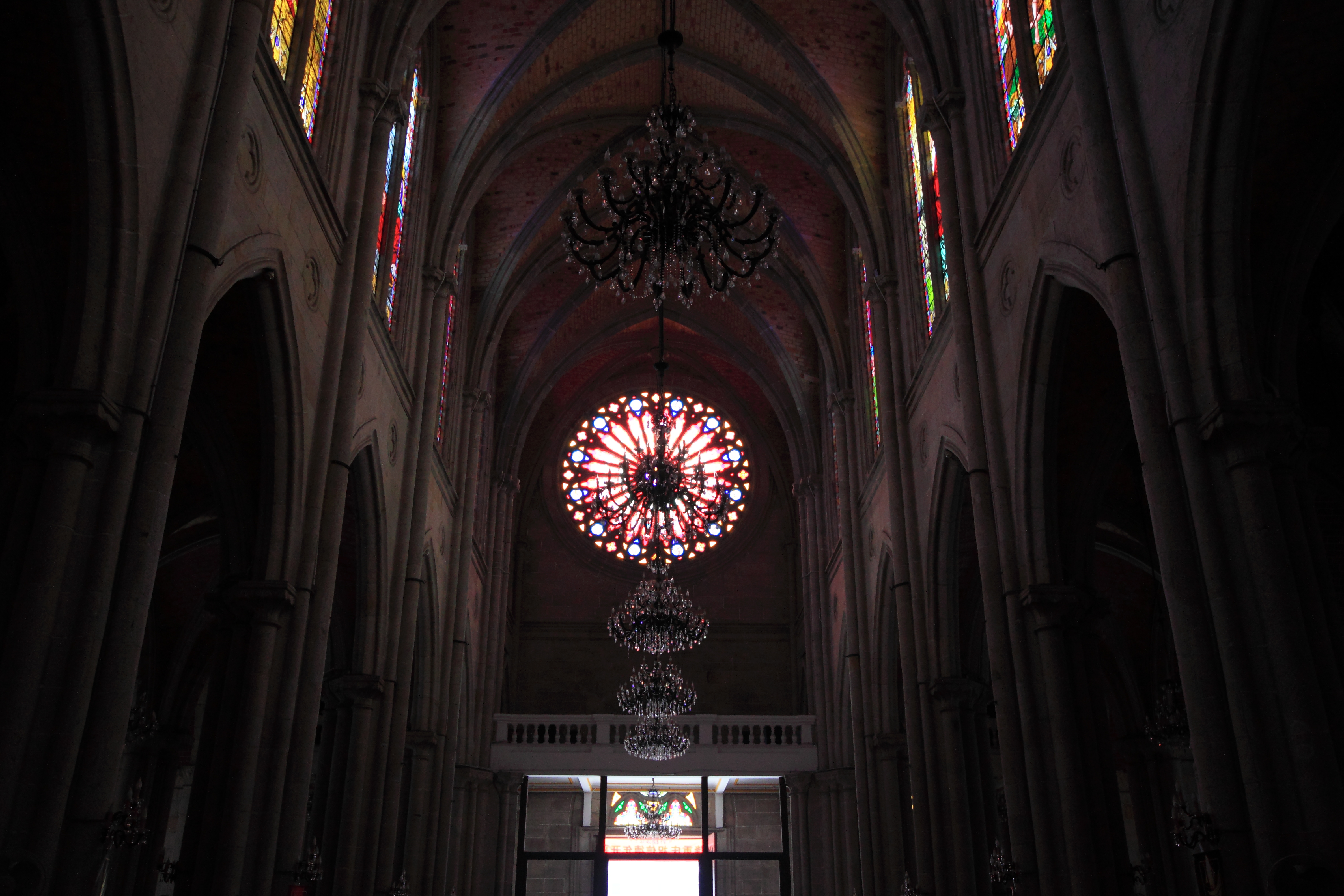 Sacred Heart Cathedral of Guangzhou，in Guangzhou, Guangdong, China.